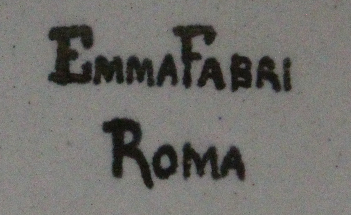 Sign of Emma Fabri